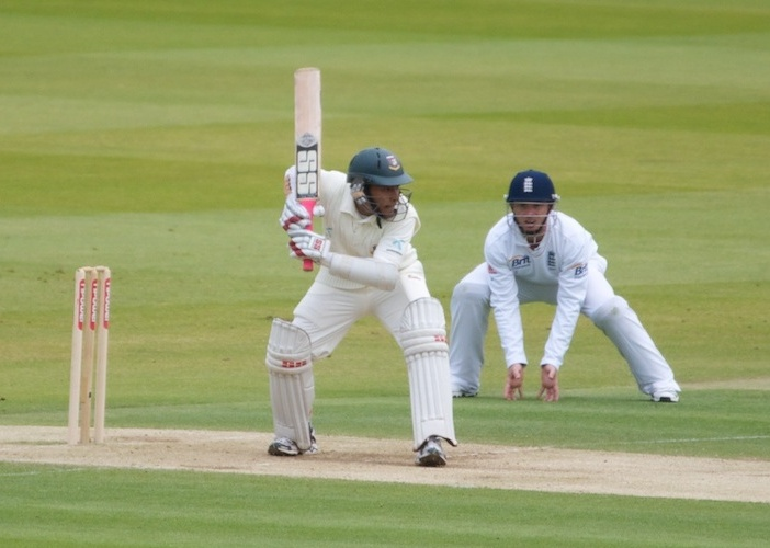 Mushfiqur Rahim batting against England at Lords in 2010